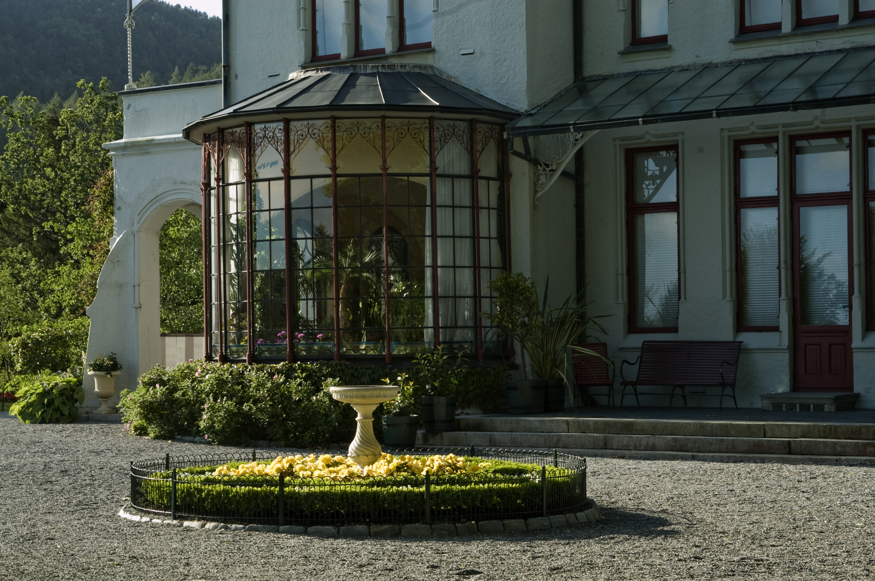 The winter garden of the main building at Gamlehaugen, Bergen, Norway.